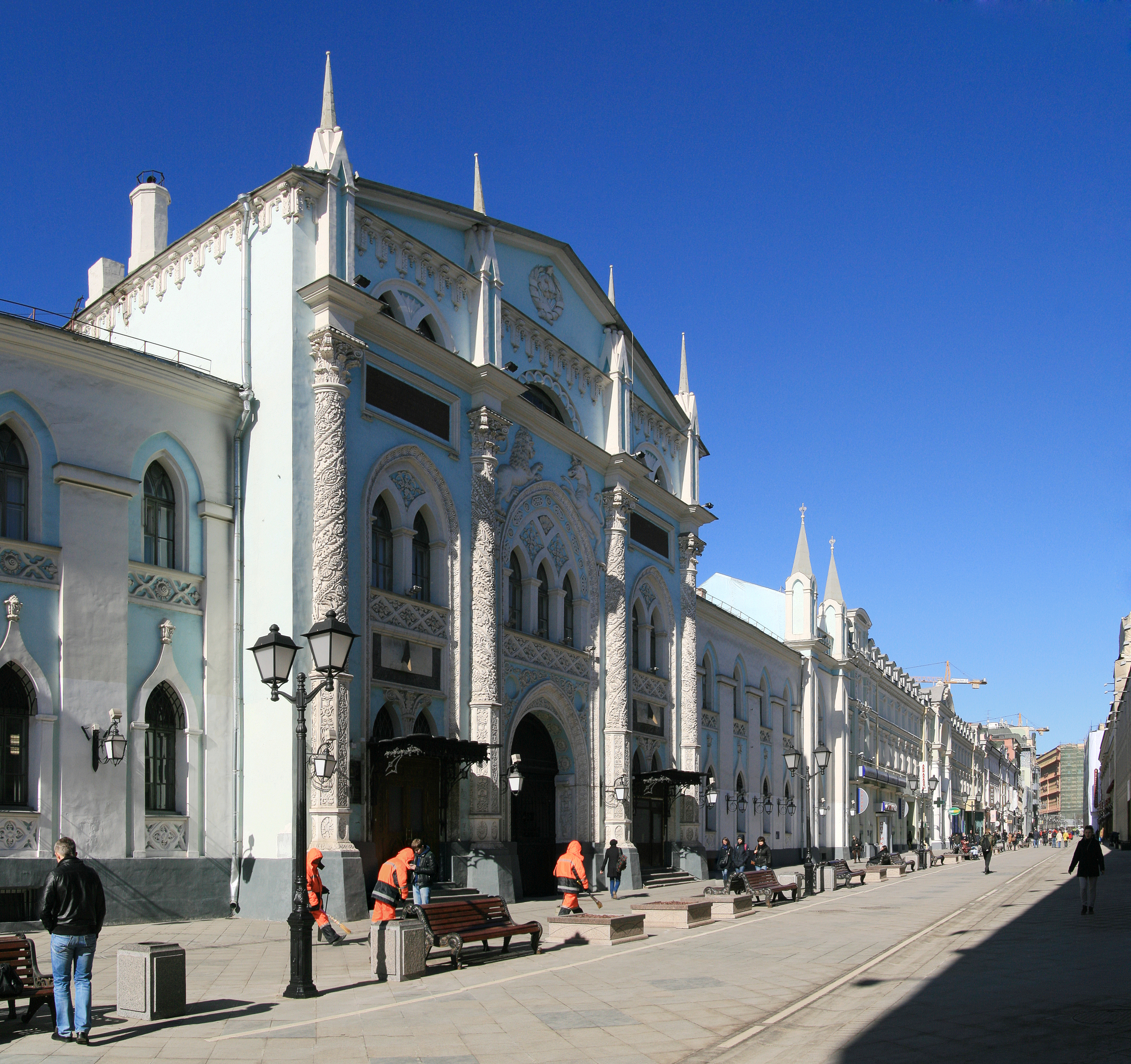 Moscow Print Yard, NIkolskaya street 15, Moscow